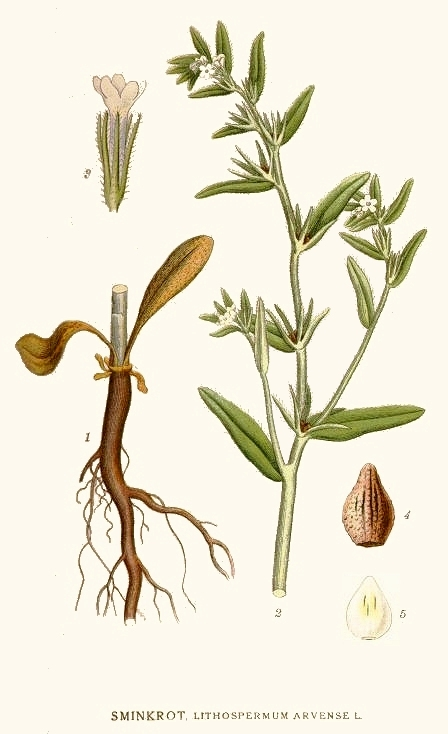 Lithospermum arvense L., syn. Buglossoides arvensis (L.) I. M. Johnst. Original Description Sminkrot, Lithospermum arvense L.